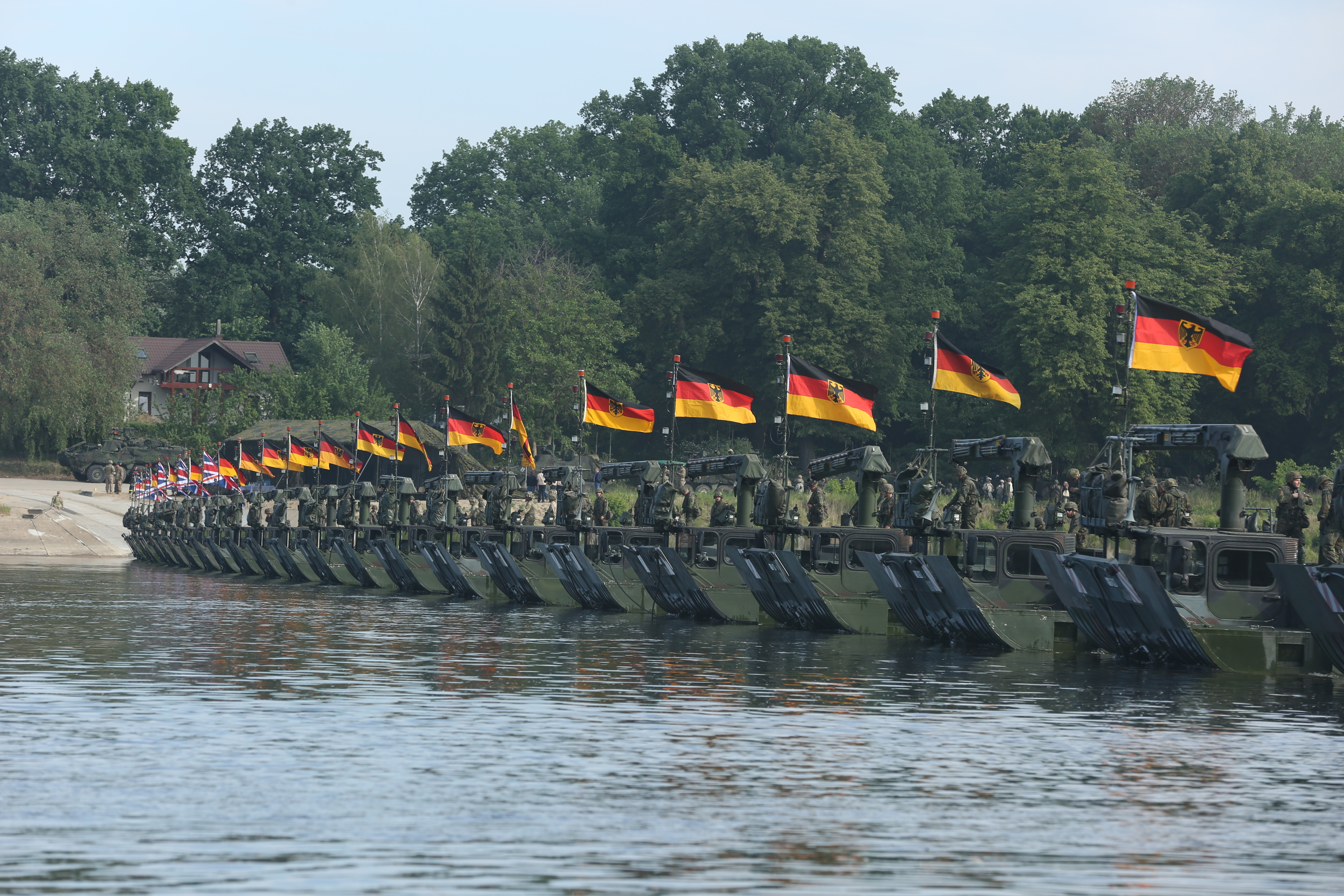 Joint forces construct a bridge using M3 amphibious rigs to enable a convoy of M1126 Strikers to cross into Chelmno, Poland. June 8. Anakanda 2016 is a Polish-led multinational exercise, taking place in Poland from June 7-17. The exercise involves more than 25,000 participants from more than 20 countries.